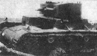 TMM-1 Soviet experimental light tank during tests